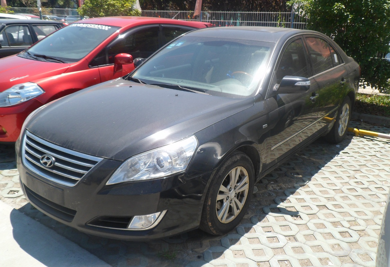 Hyundai Sonata NFC